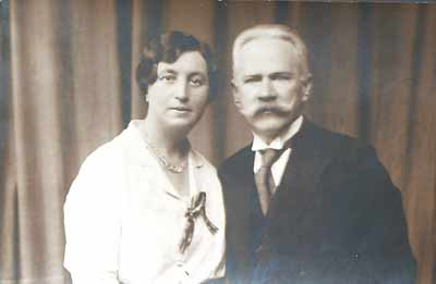 Photo of Belarusian public figure, cultural worker, pedagogue, editor and publicist Anton Niekanda-Trepka with his wife Julija Беларуская (тарашкевіца): Фатаздымак беларускага палітычнага і грамадзка-культурнага дзеяча, выдаўца, пэдагога і публіцыста Антона Неканда-Трэпкі зь яго жонкай Юліяй